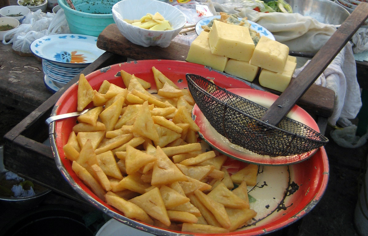 Mandalay, Myanmar Twice fried tofu fritters